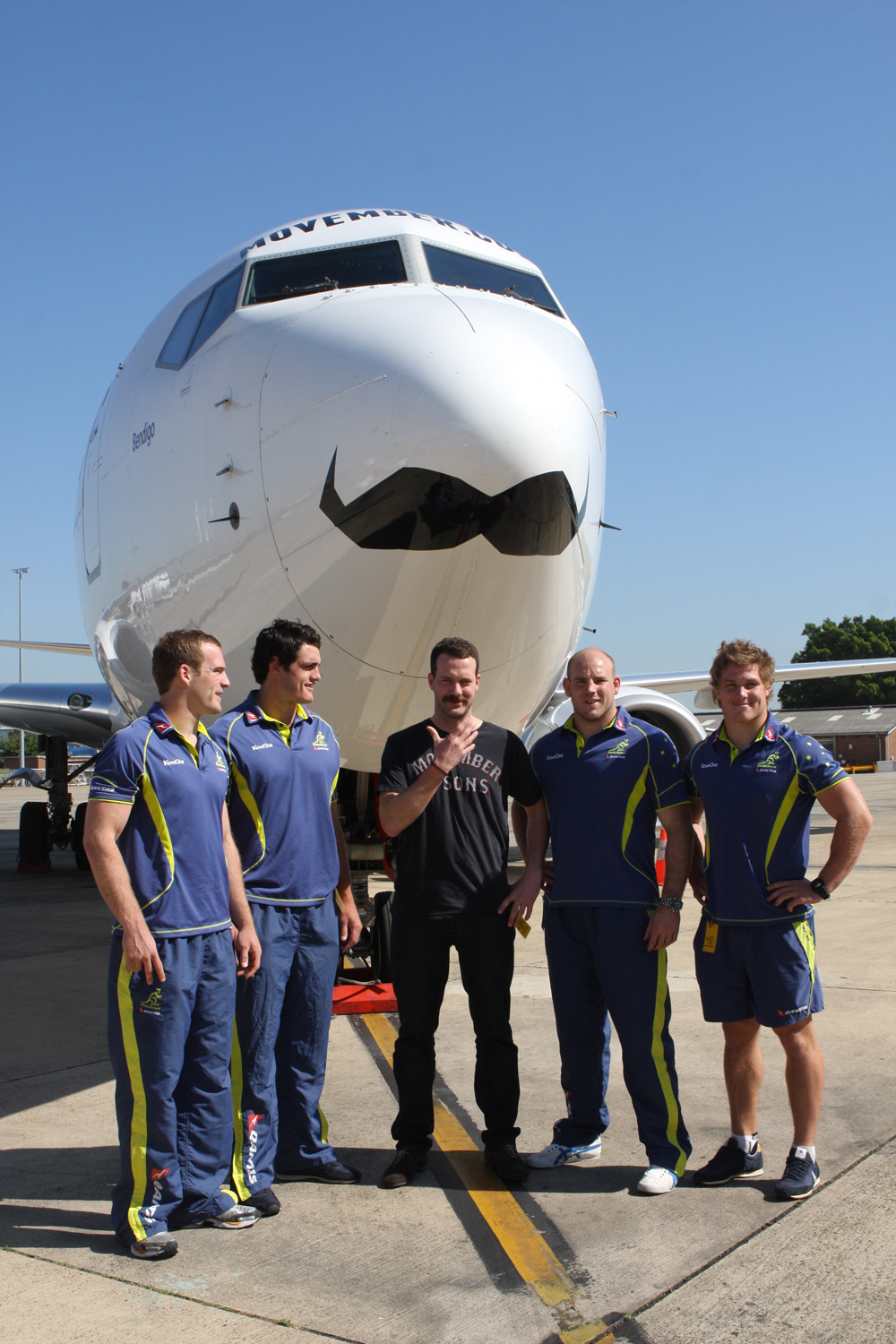 The Qantas Wallabies unveil a Boeing 737-800 aircraft sporting a giant moustache which will fly around the country for the month of November raising awareness of prostate cancer and men's mental health.